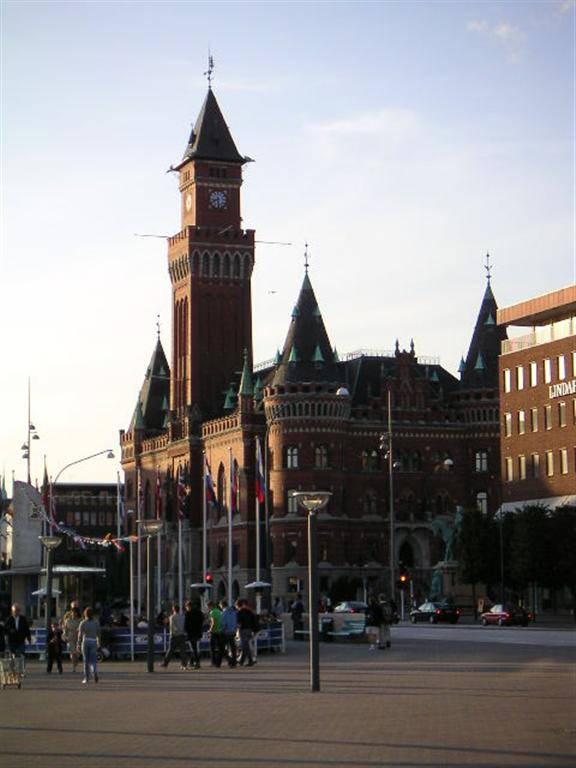 Photo: Bengt Olof ÅRADSSON